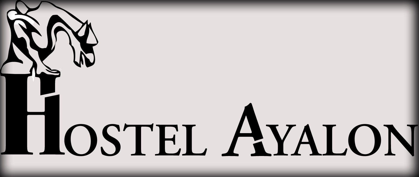 Hostel Ayalon, an old recording studio from the 70's, in Tel Aviv.